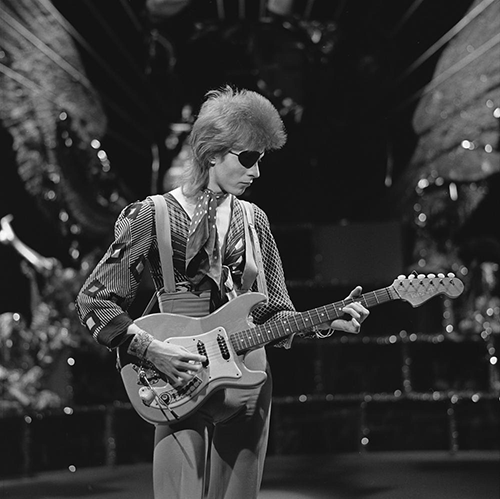 David Bowie, shooting his video for Rebel Rebel in AVRO's TopPop (Dutch television show) in 1974